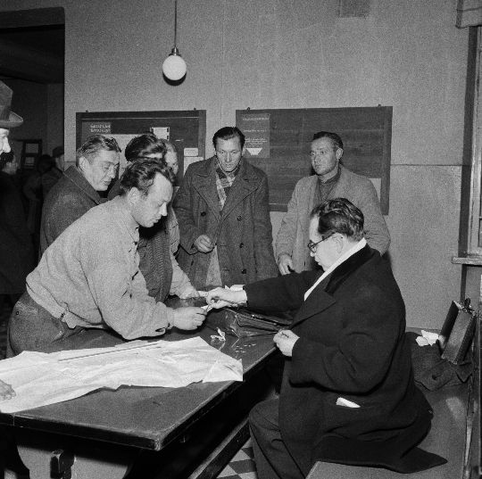 Photograph of the city missionary worker Arvid von Martens (sitting) registering homeless men at a night shelter in Helsinki, Kalliolanrinne 5.